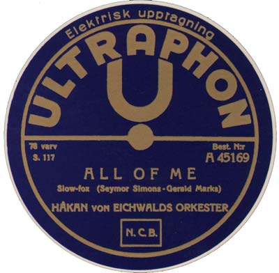 Record label: Ultraphon A 45169. All of me. Håkan von Eichwalds orkester